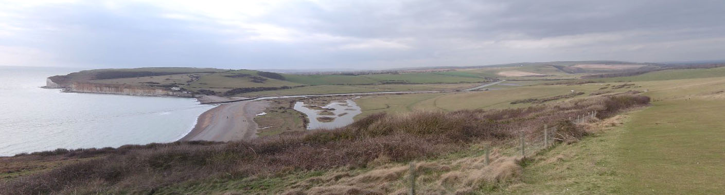 Panorama of Cuckmere Haven and River Cuckmere, England Image by ChrisO Captioned As { }